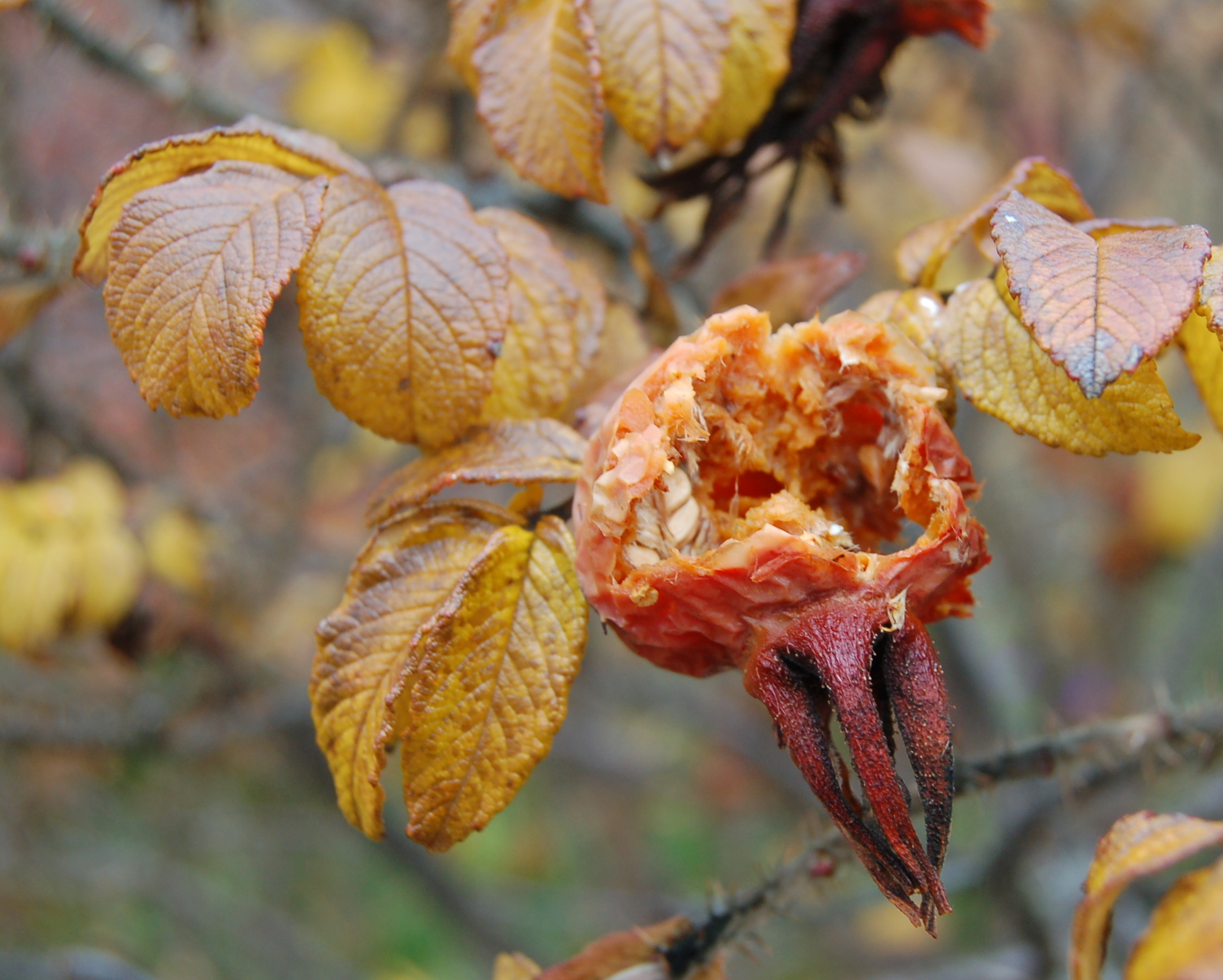 Rosa rugosa - food for the birds!